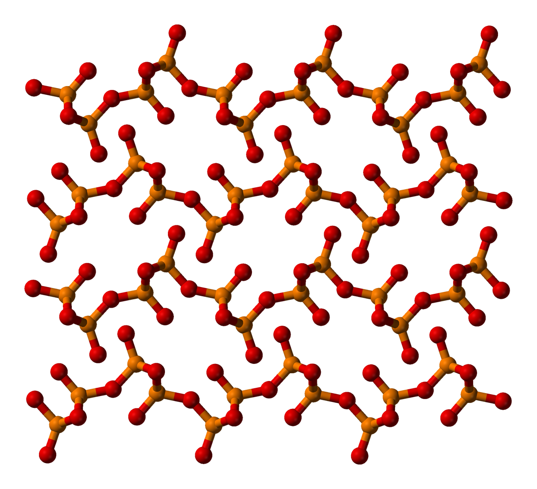 Ball-and-stick model of part of the crystal structure of o′-(P2O5)∞, the thermodynamically most stable form of phosphorus pentoxide. The structure consists of stacked infinite sheets of six-membered rings X-ray crystallographic data from D. Stachel, I. Svoboda and H. Fuess (June 1995). "Phosphorus Pentoxide at 233 K". Acta Cryst. C51 (6): 1049-1050. Model constructed in CrystalMaker 8.1. Image generated in Accelrys DS Visualizer.